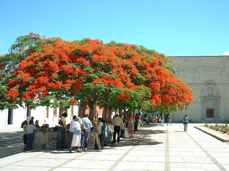 Royal Poincianas (Delonix regia) in the courtyard of Santo Domingo, Oaxaca, Oaxaca. - Photograph taken 30th May 2004 by Stephen Lea. Identified by comparison with numerous images from the web.